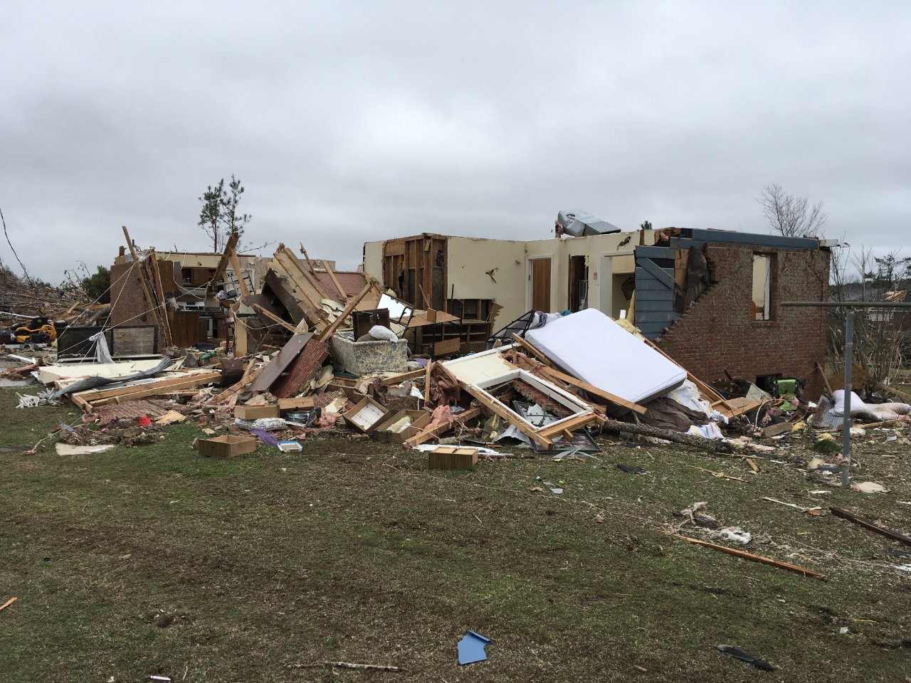 Remains of a house that was destroyed by a high-end EF2 tornado near Carrollton, Alabama on January 11, 2020